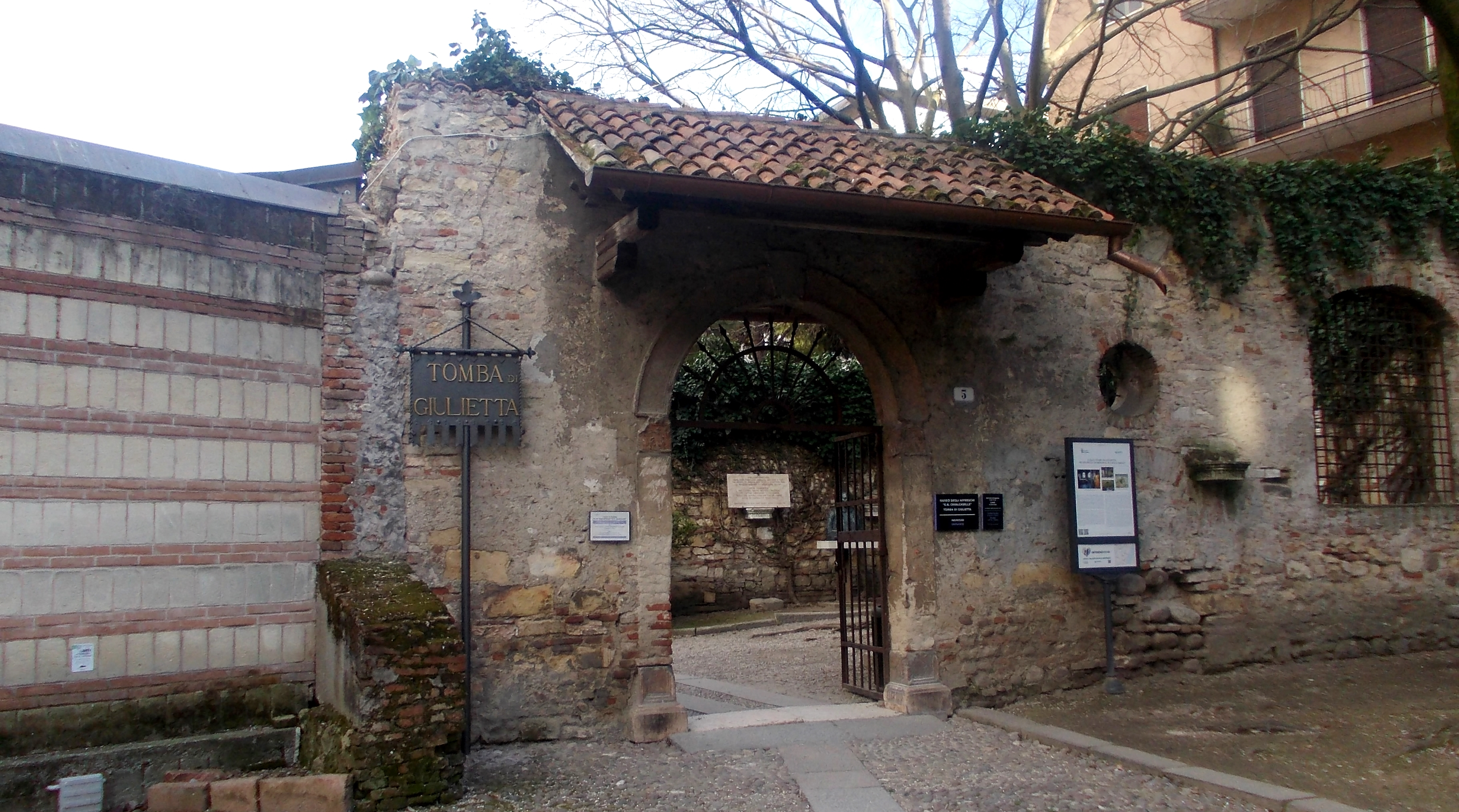 Tomba di Giulietta Entrance